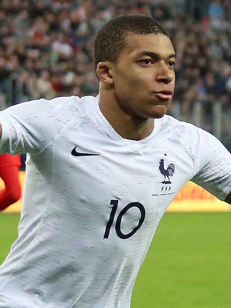 Kylian Mbappe celebrating his second goal for France on 27 March 2018.